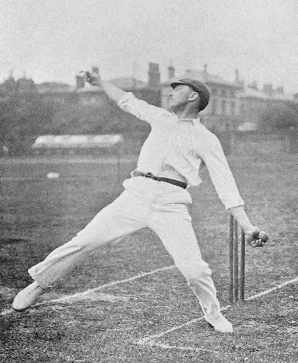 Photograph of Wilfred Rhodes bowling taken by George Beldam in 1906.